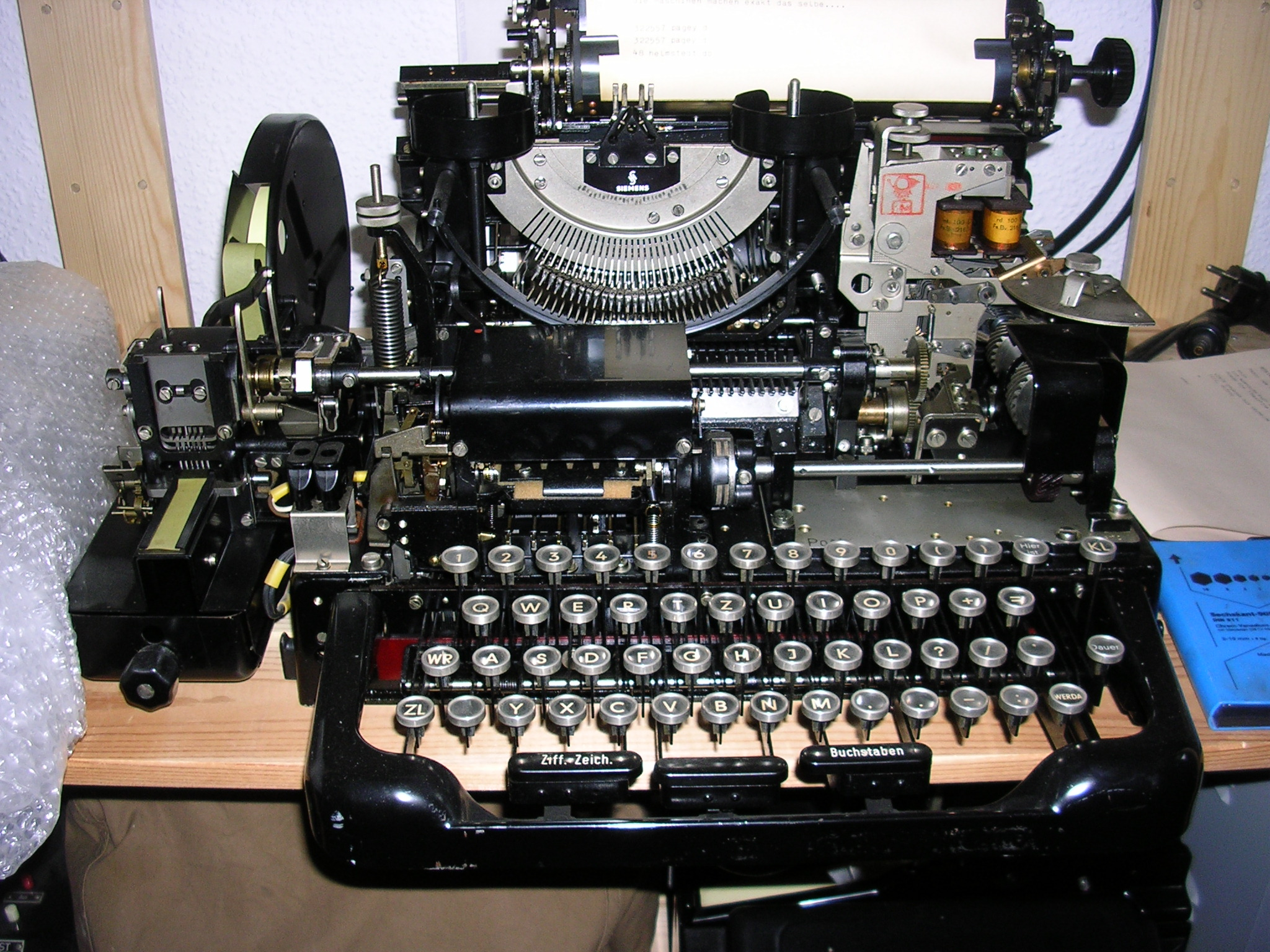 Siemens T37h teleprinter with paper tape punch attachment. A machine from my collection, no cover.